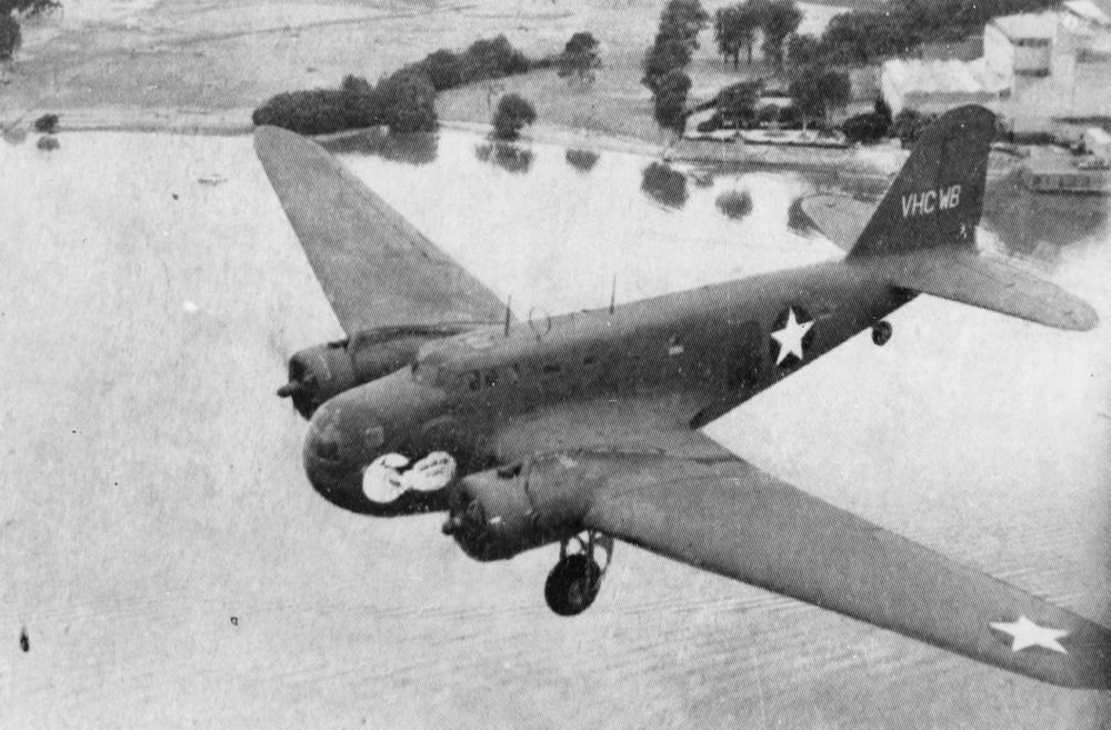 B-18 Digby flying above the Brisbane River near Eagle Farm, Queensland. Douglas B-18 Digby plane VHCWB. (Description supplied with photograph.).